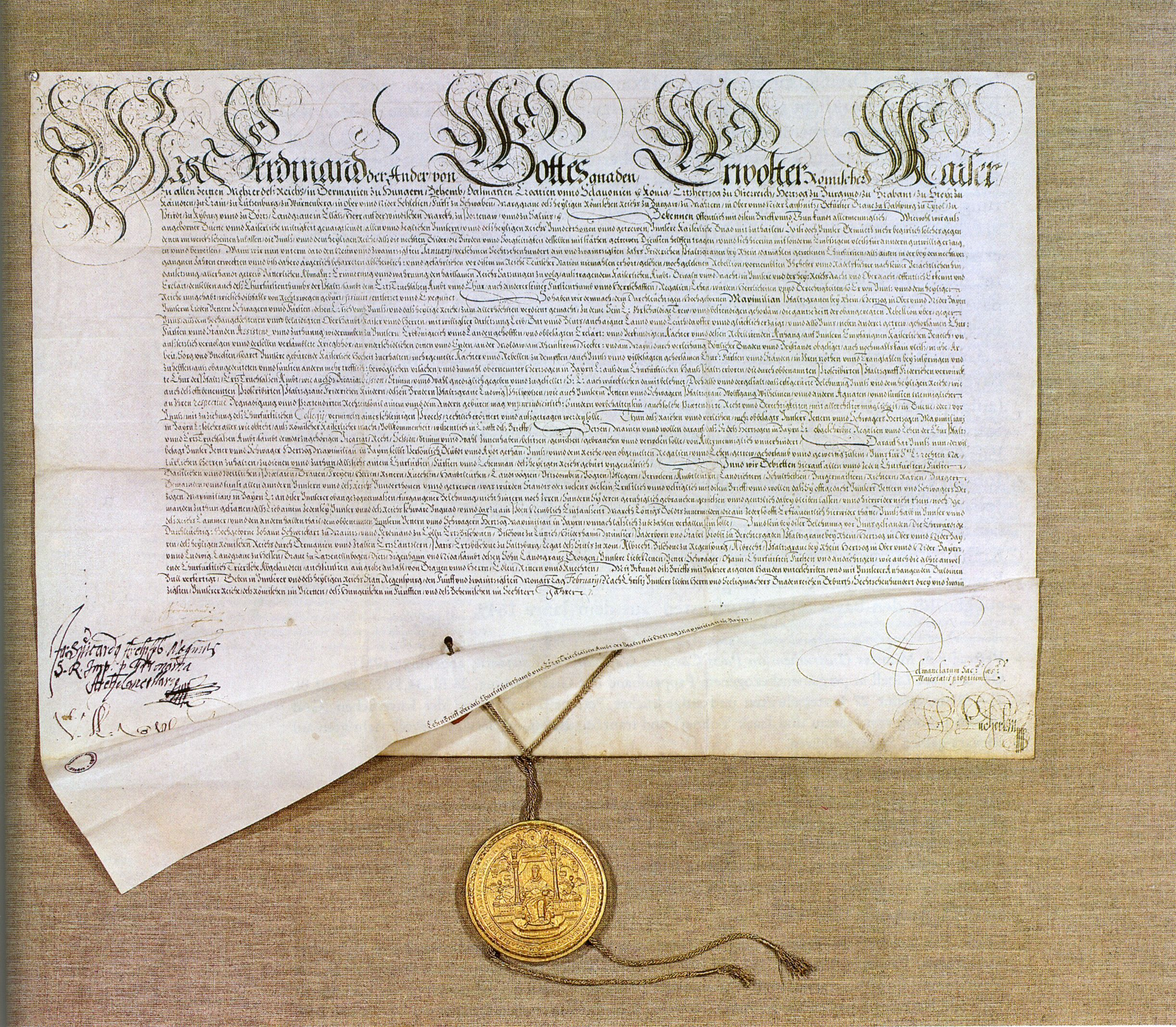 Charter of Emperor Ferdinand II enfeoffing Elector-Duke Maximilian I of Bavaria with the electorship of the Electoral Palatinate. München, Bayerisches Hauptstaatsarchiv, Kurbayern Urk. 22118.